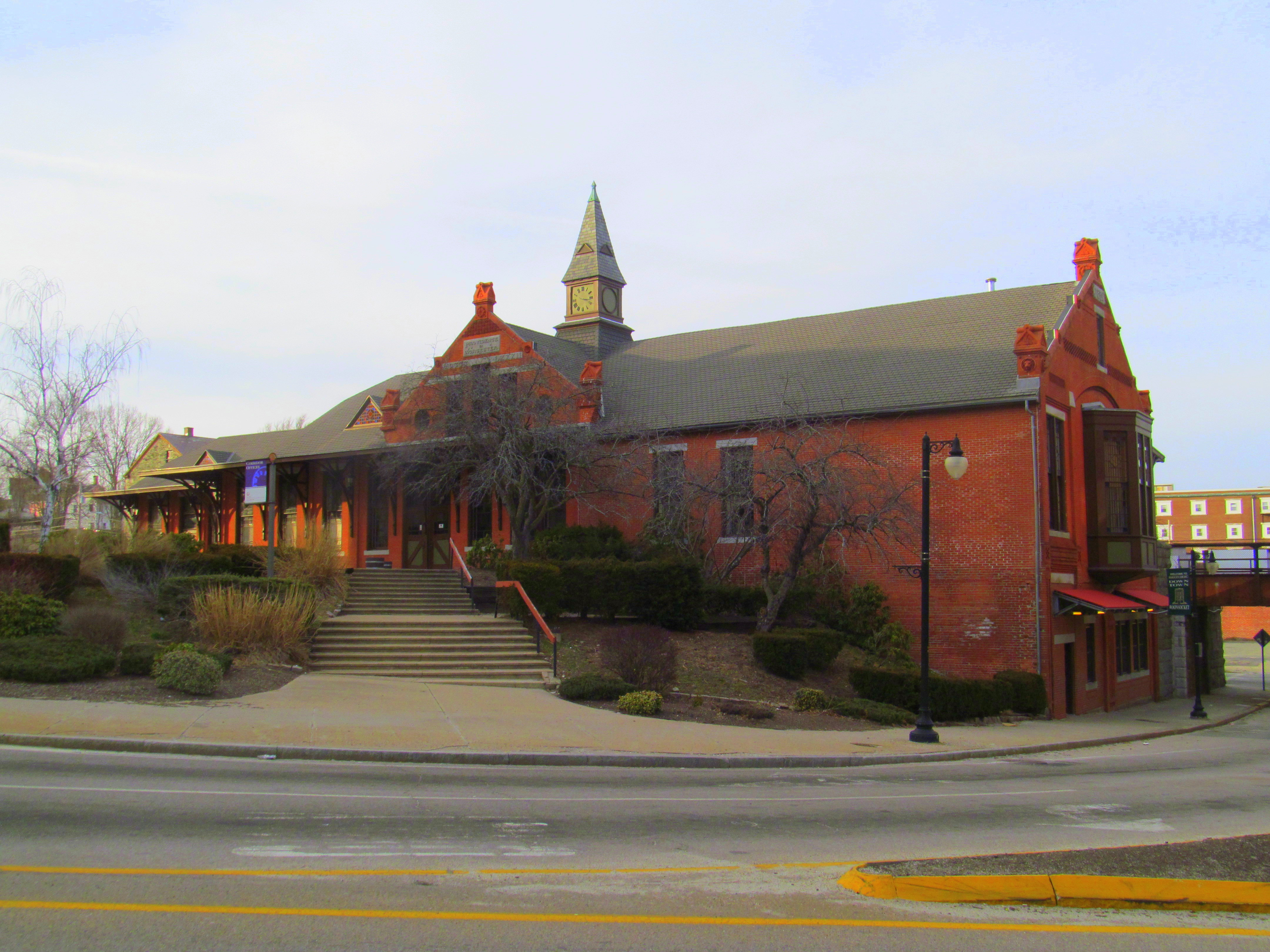 Woonsocket Depot in February 2016